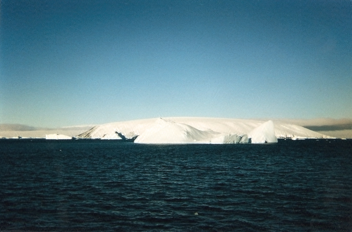 Icebergs in the Antarctic Sound.